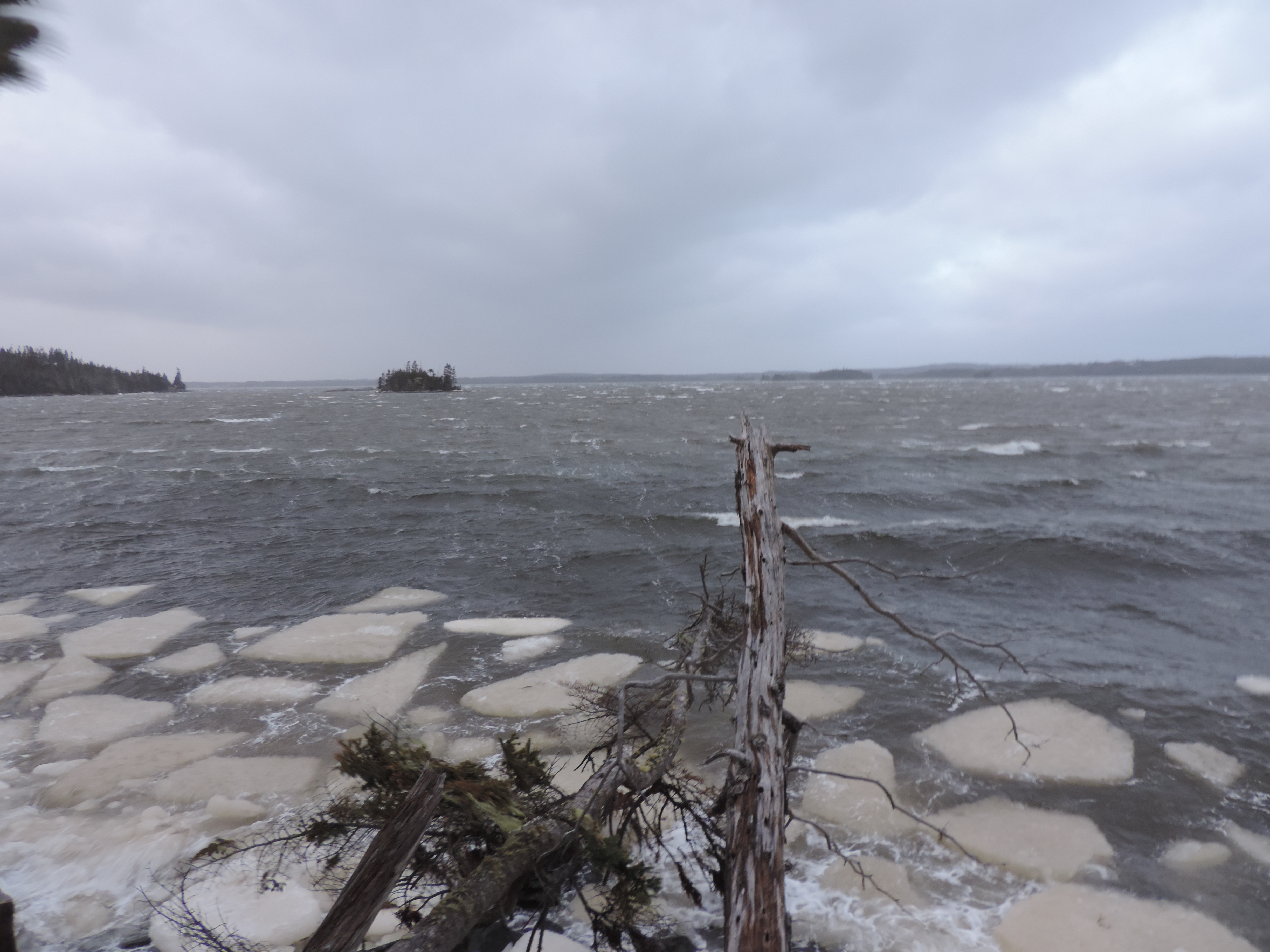 Waves breaking in Jeddore Harbour during the January 2018 blizzard.